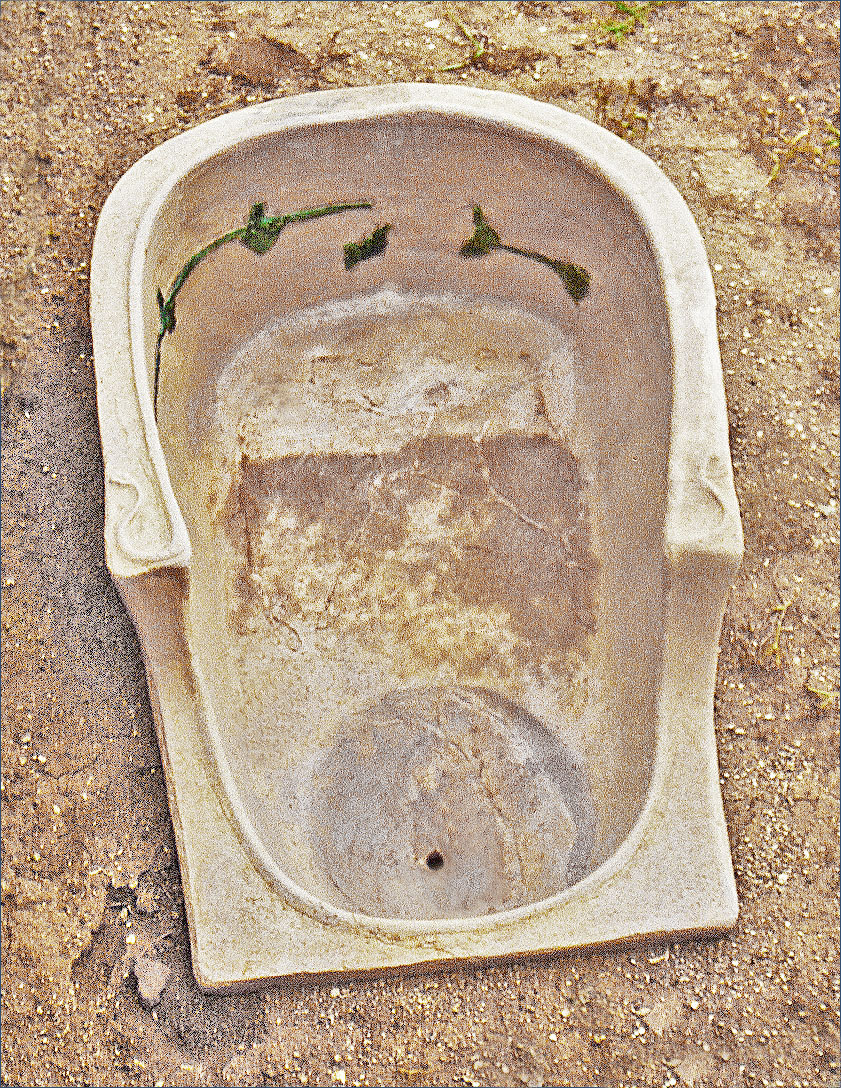 Individual terracotta bathtub at Olynthe in Greece.